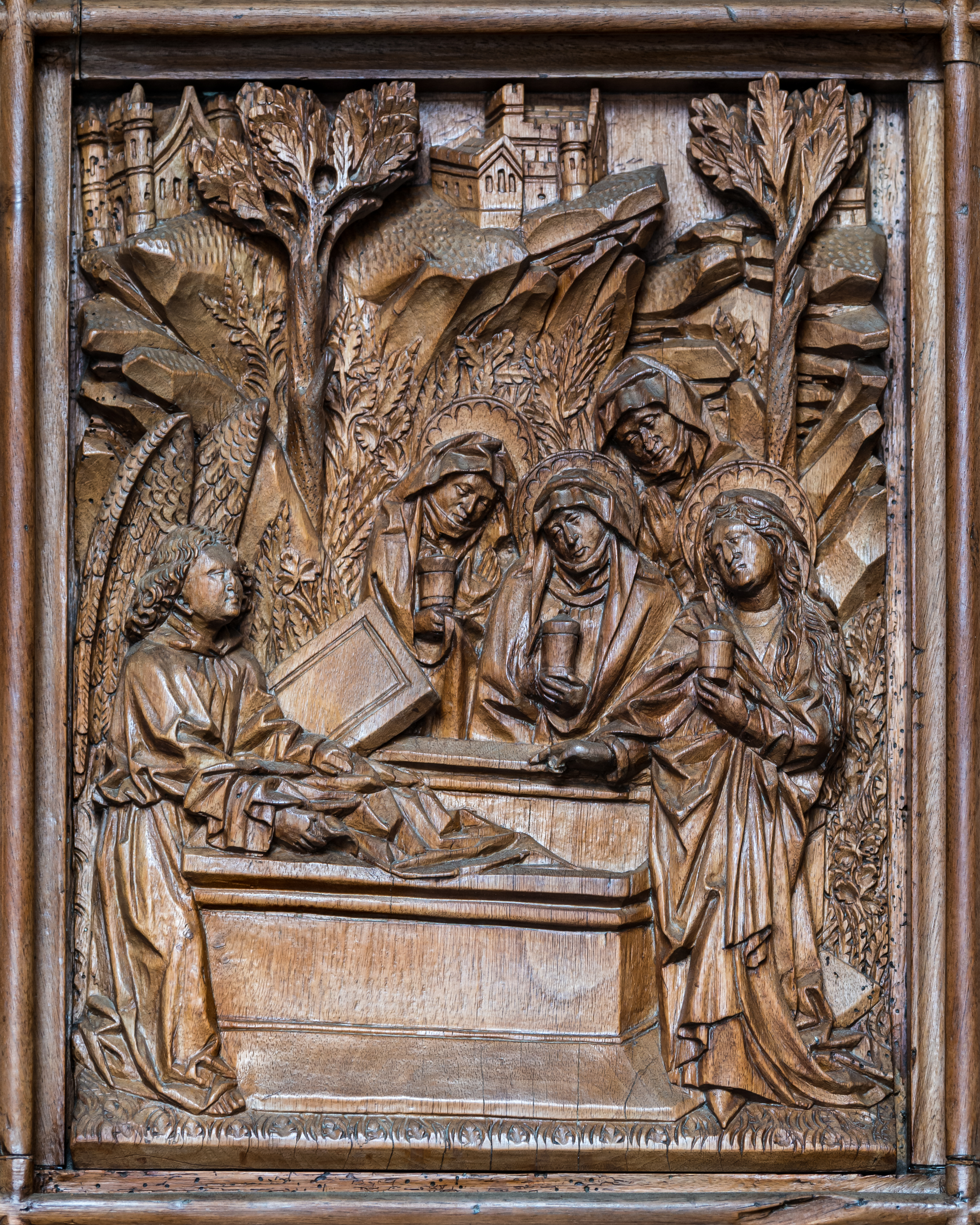 The tree Marys at the Tomb of Christ at the west portal of Konstanz Minster, Konstanz, Baden-Württemberg, Germany. Simon Haider, signed and dated 1470.